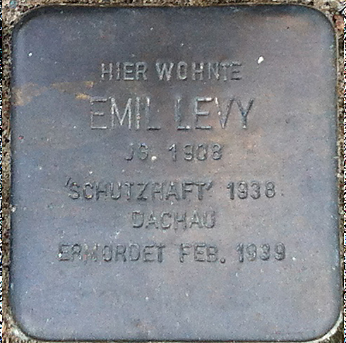 Stolperstein - Stumbling Stone in Nettetal, NRW, Germany Emil Levy